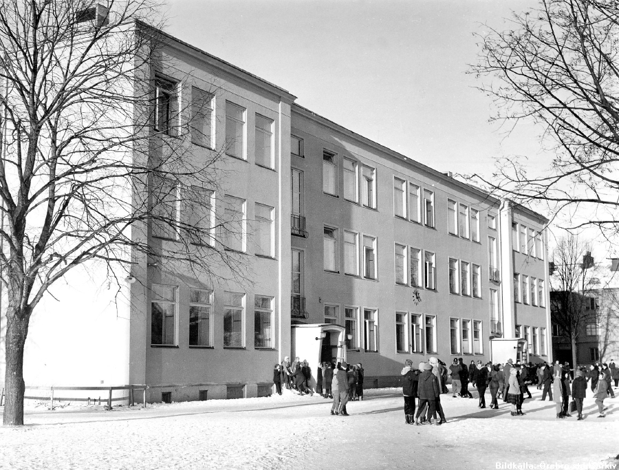 The school Vasaskolan in Örebro Sweden